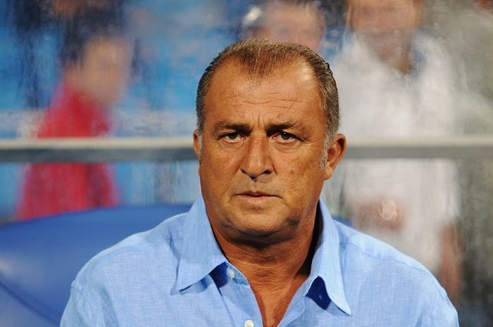 Fatih Terim